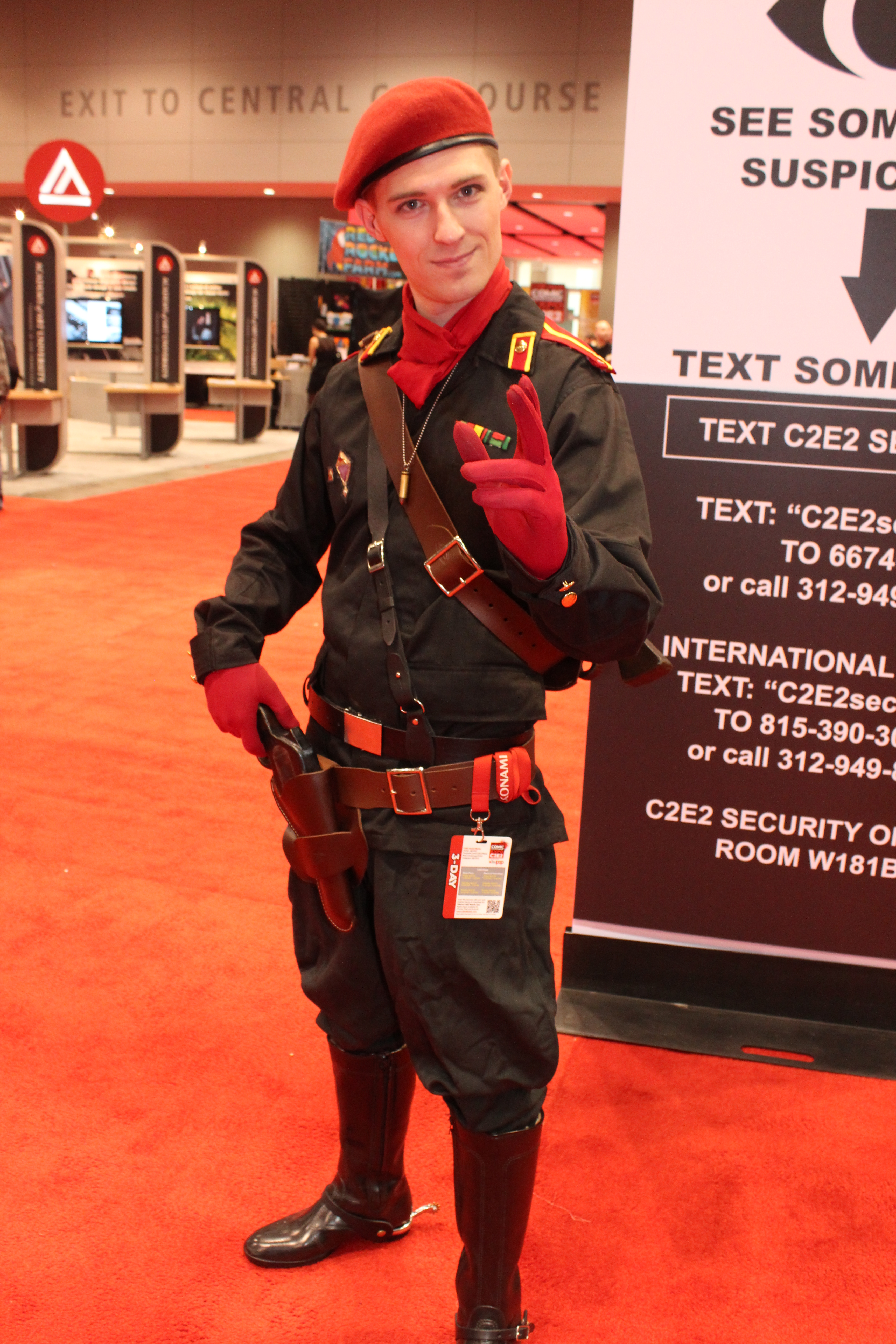 Cosplay at the 2013 Chicago Comic & Entertainment Expo (C2E2).